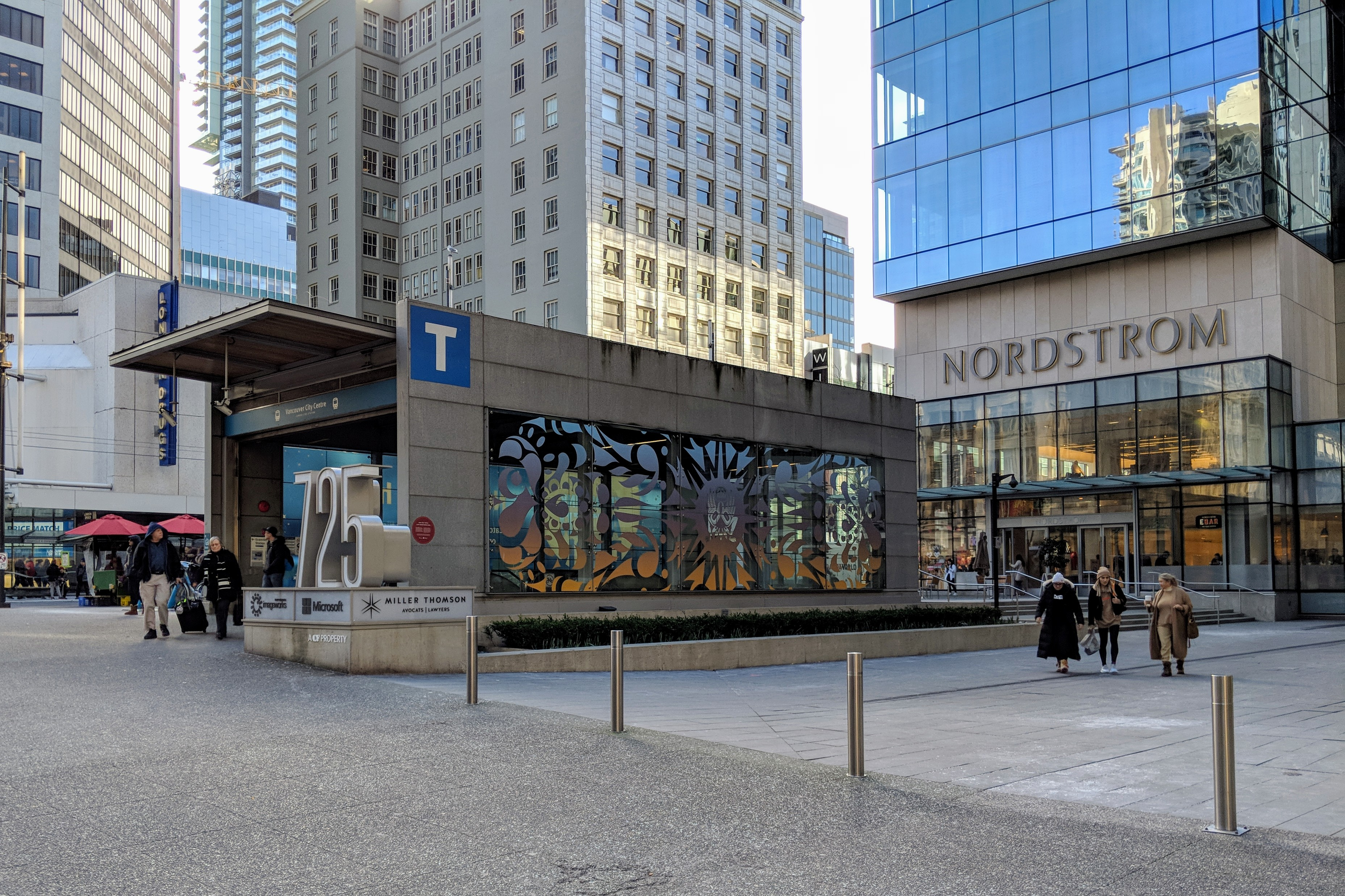 Vancouver City Centre station entrance.